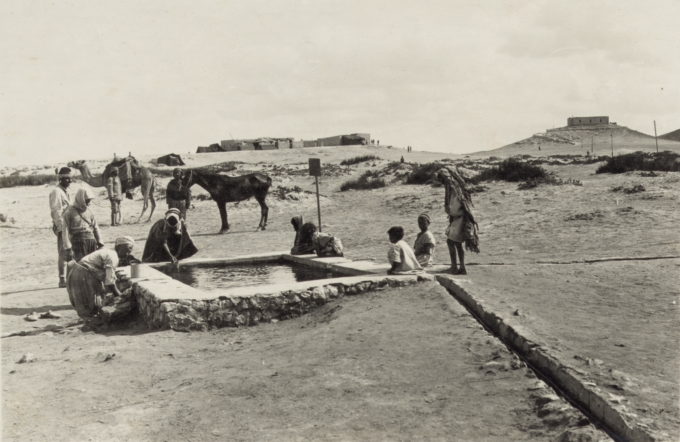 Kuseimeh on the Egyptian-Turkish frontier, c. 1915-1916